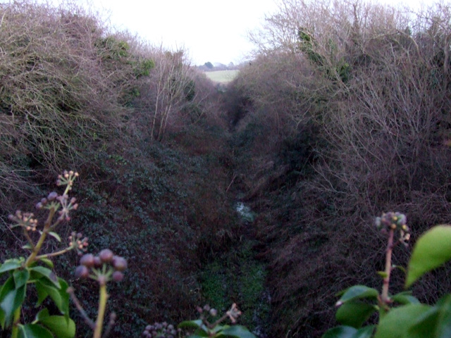 Overgrown railway line The overgrown Amlwch branch line near to its junction with the mainline across Anglesey outside Llanddaniel Fab